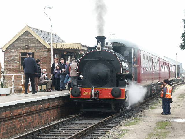 Industrial 0-4-0ST no. 1749 'Fulstow no. 2', plus Mk 2 coaches on the Lincolnshire Wolds Railway, Ludborough